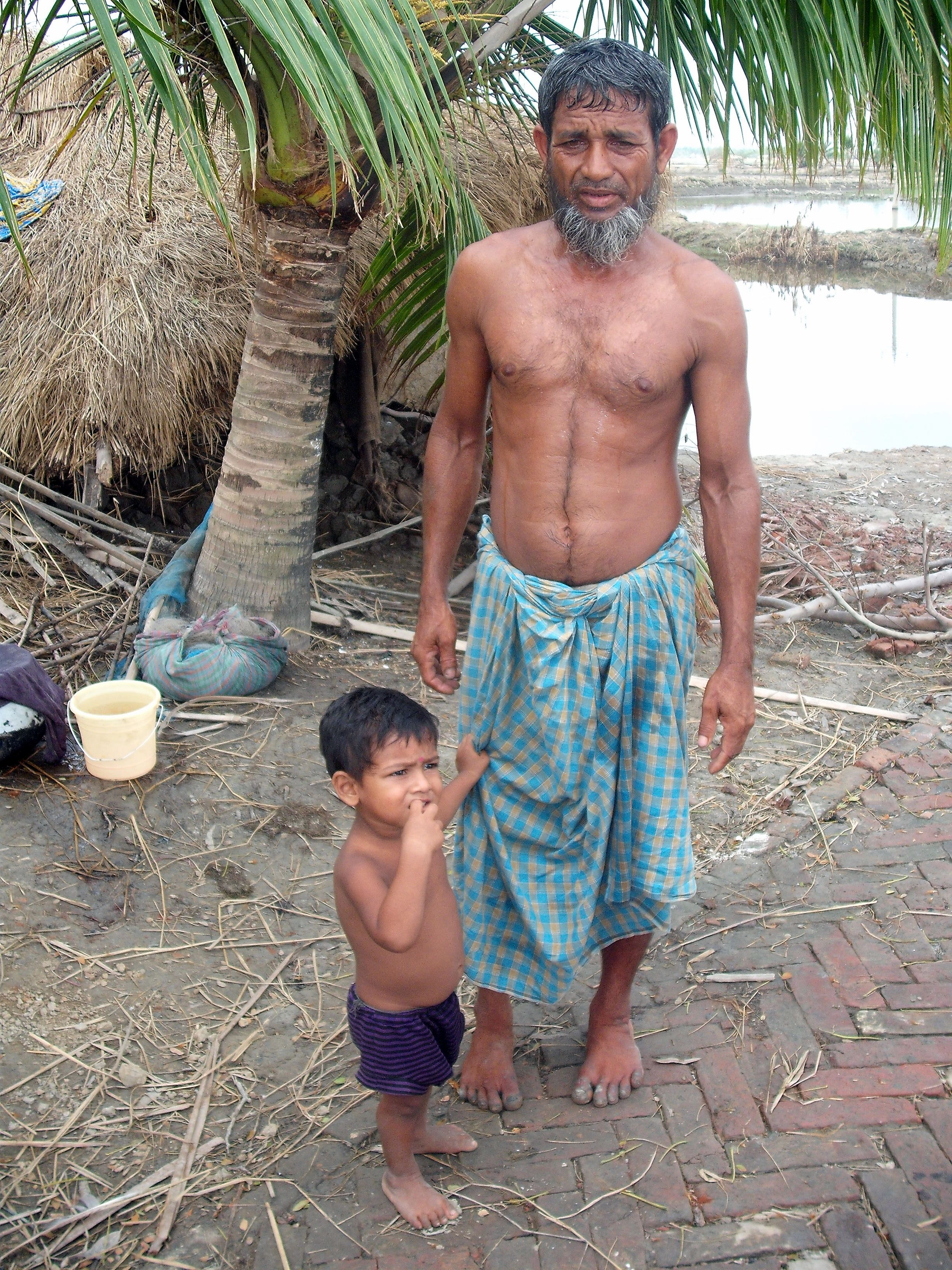 A father and a son, Sunderban, India, emerged out of the makeshift tent to describe their story of valiant fight for survival against Aila, which took with it their everything and spared their lives.